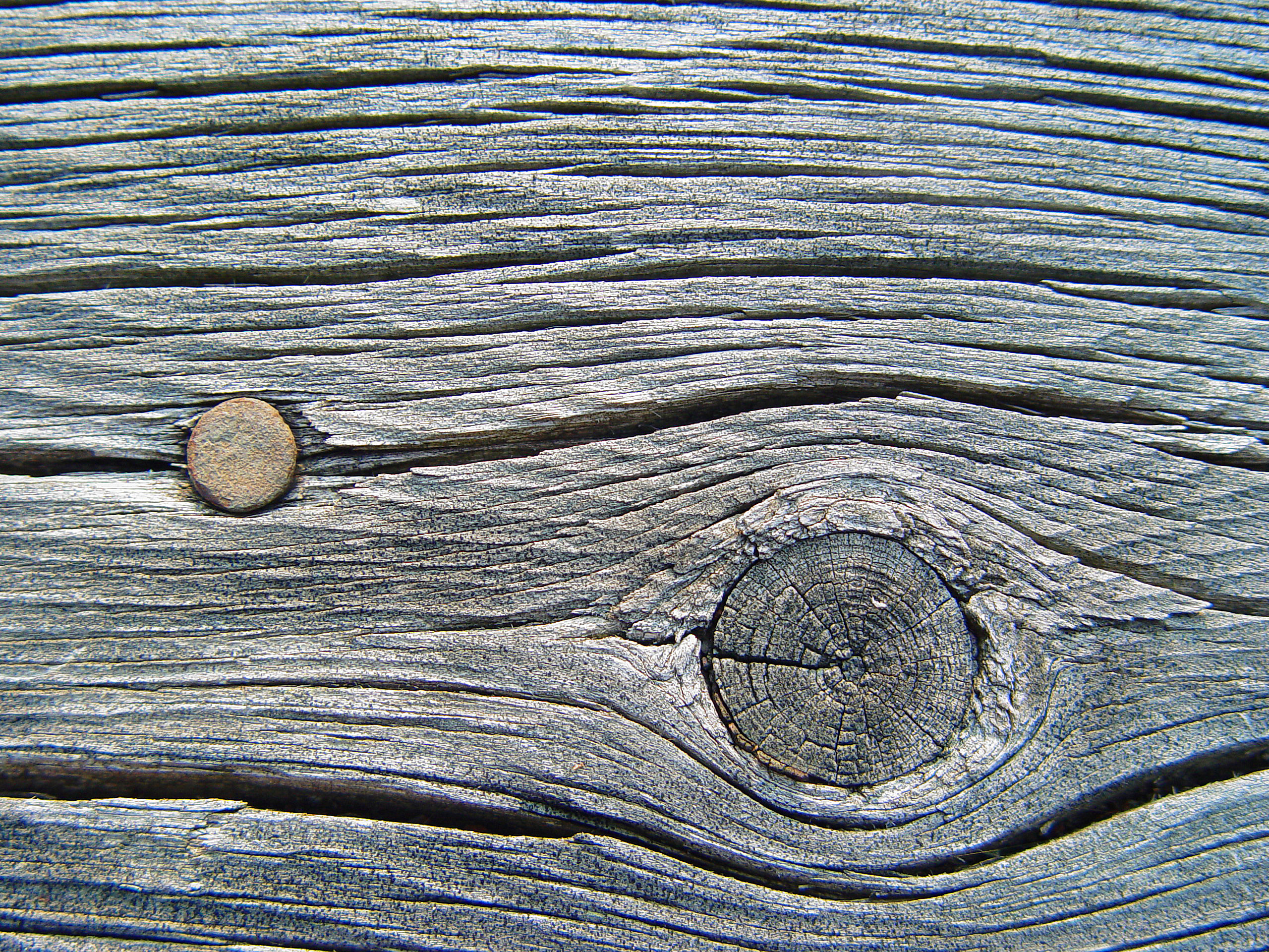 Wood ribs